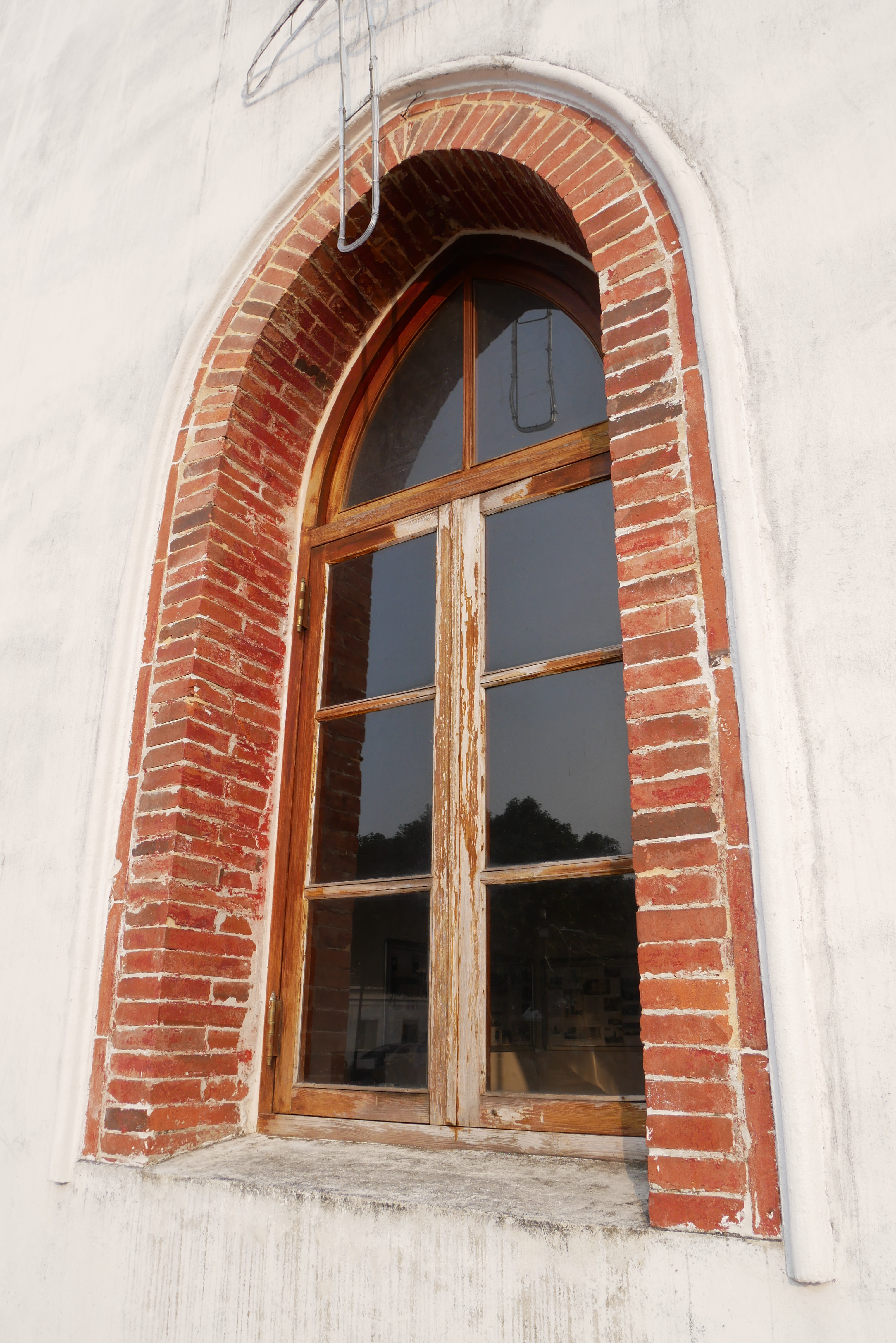 萬金聖母聖殿窗戶，屏東縣萬巒鄉萬金村